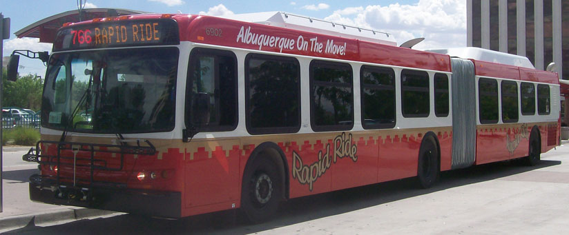 New Flyer DE60LFR Rapid Ride bus owned and operated by ABQ RIDE.